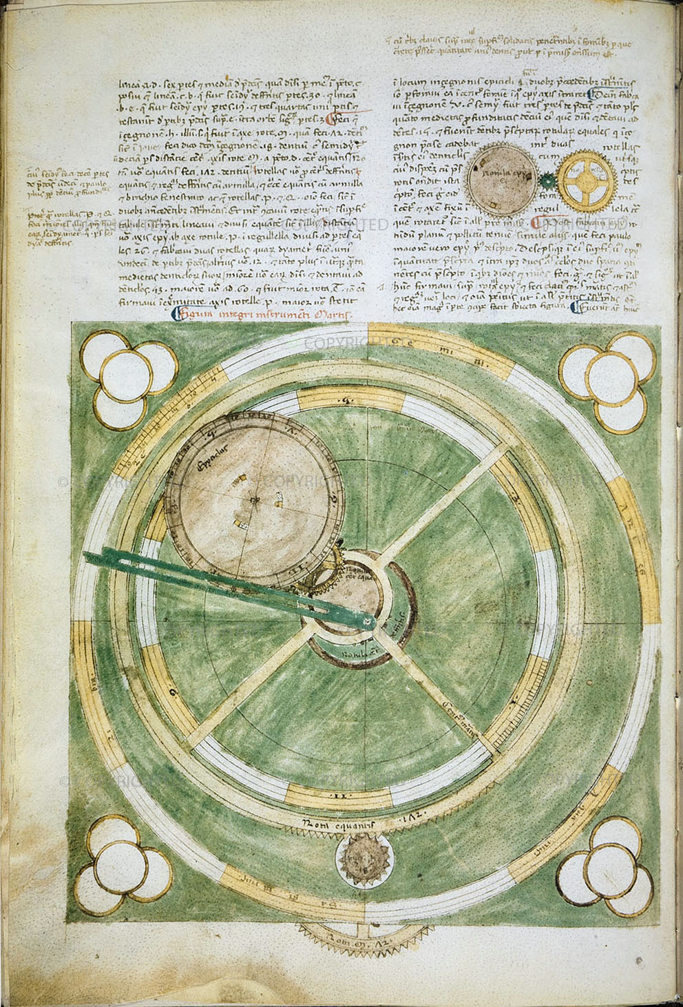 Giovanni Dondi dell'Orologio (1330–1388), Tractatus astrarii (manuscript describing the construction of his Astrarium), page showing the dial of Venus; Padova, Biblioteca Capitolare, Ms. D.39: 12v